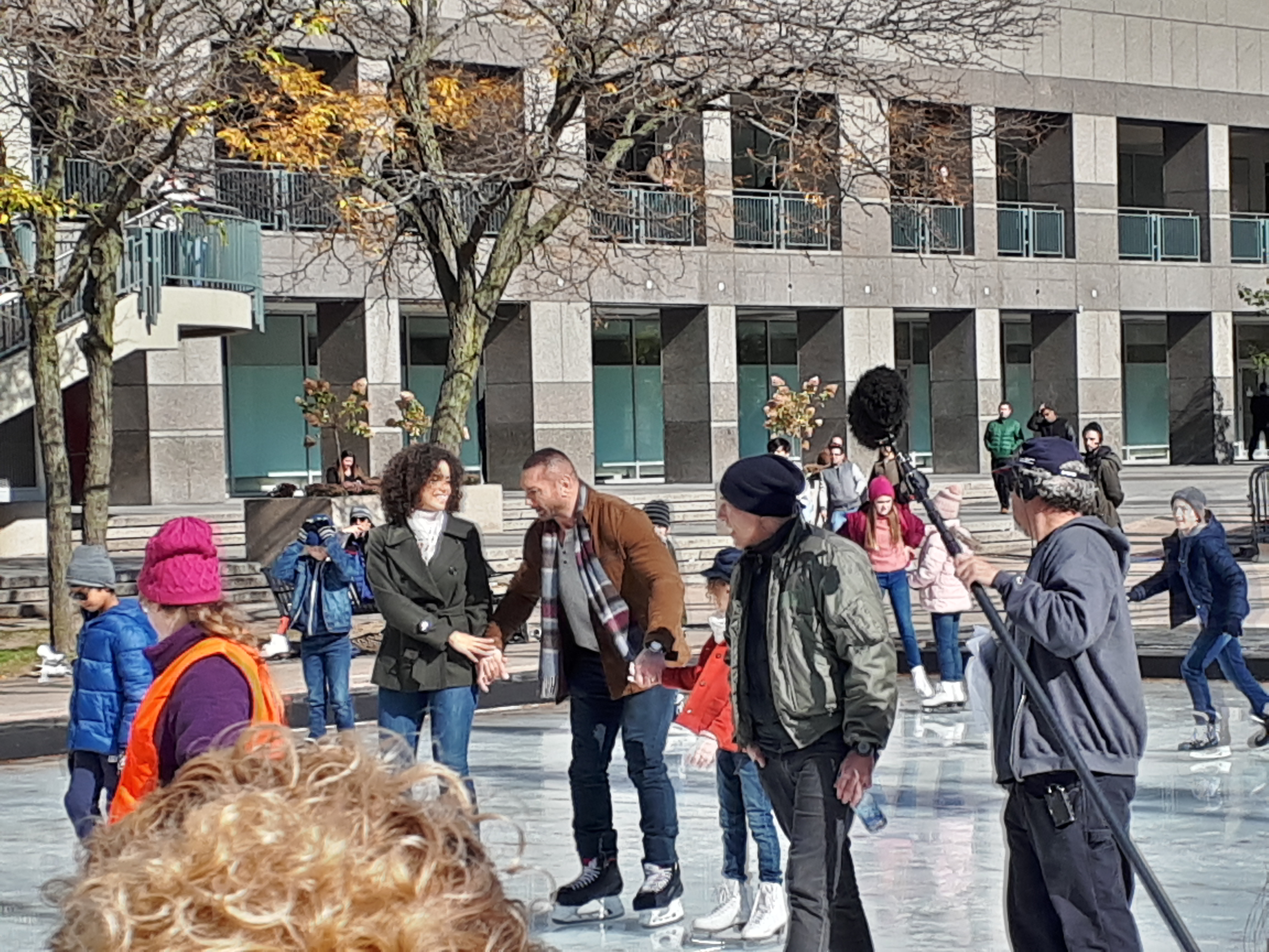 Mel Lastman Square in North York during filming. Filming of the movie in Mel Lastman Square in North York.